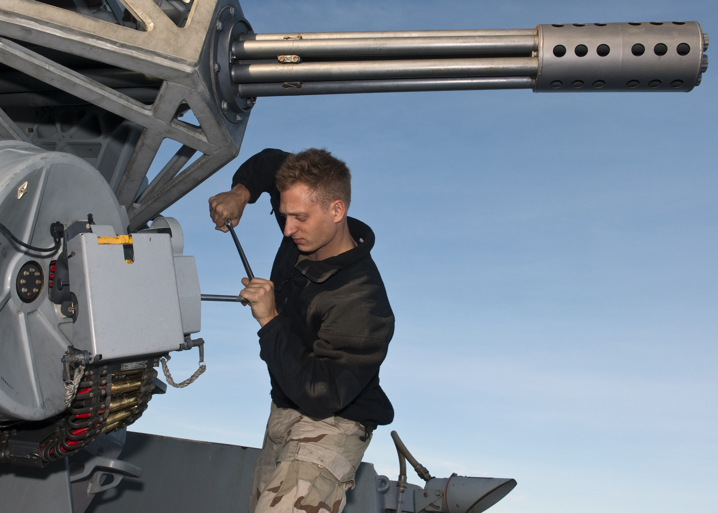 ATLANTIC OCEAN (Sept. 23, 2011) Fire Controlman 2nd Class Anthony Ferretti prepares a close-in weapon system for a live-fire exercise aboard the guided-missile destroyer USS Arleigh Burke (DDG 51). Arleigh Burke is deployed to participate in exercise Joint Warrior 2011-2. Joint Warrior serves as a certifying event for ships deploying with coalition forces in future operations. (U.S. Navy photo by Mass Communication Specialist 3rd Class Scott Pittman/Released)